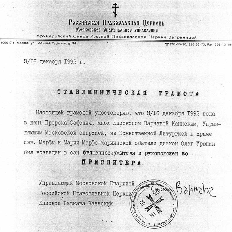 Certificate Of Ordination of Fr.Oleg Uryupin (Molenko)